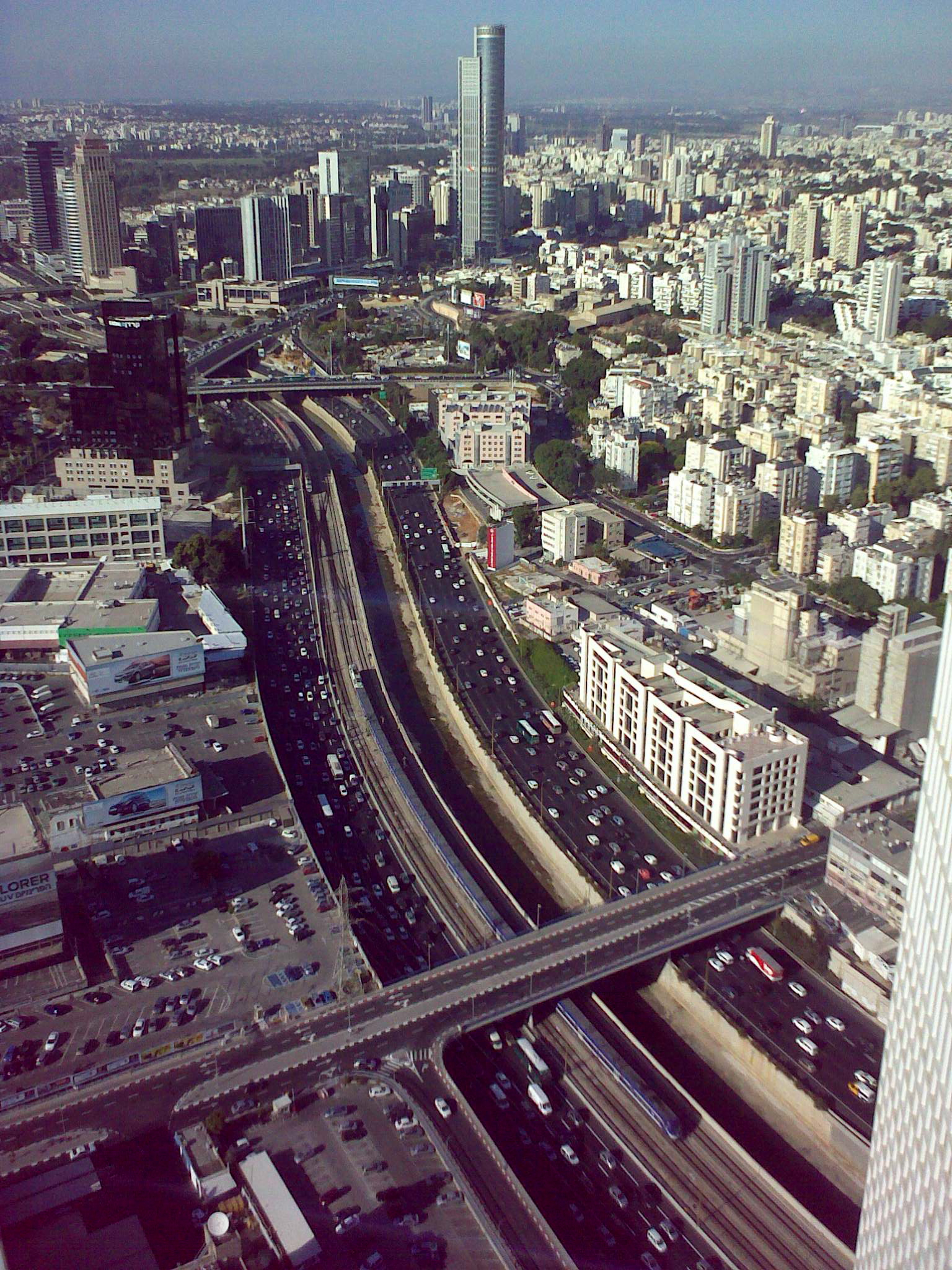 Highway 20 (Israel).